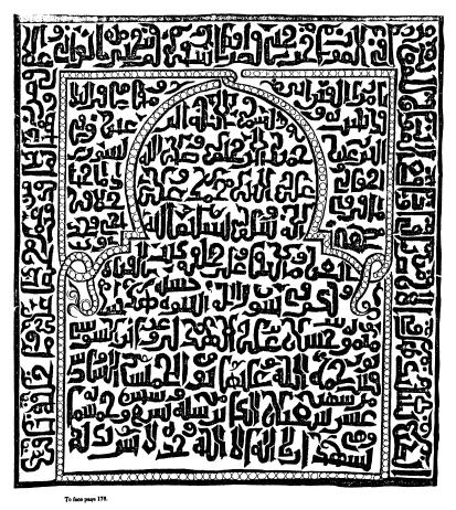 Maltese Arabic script crop on a tomb stone from the article "Copy of an Arabic Inscription in Cufic or Karmatic Characters, on a Tombstone at Malta; With Remarks and Translation" (January 1, 1841) Author: Shakespear, John Volume: 6 Publisher: Journal of the Royal Asiatic Society of Great Britain and Ireland on